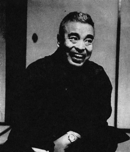 Shuitsu Matsumura